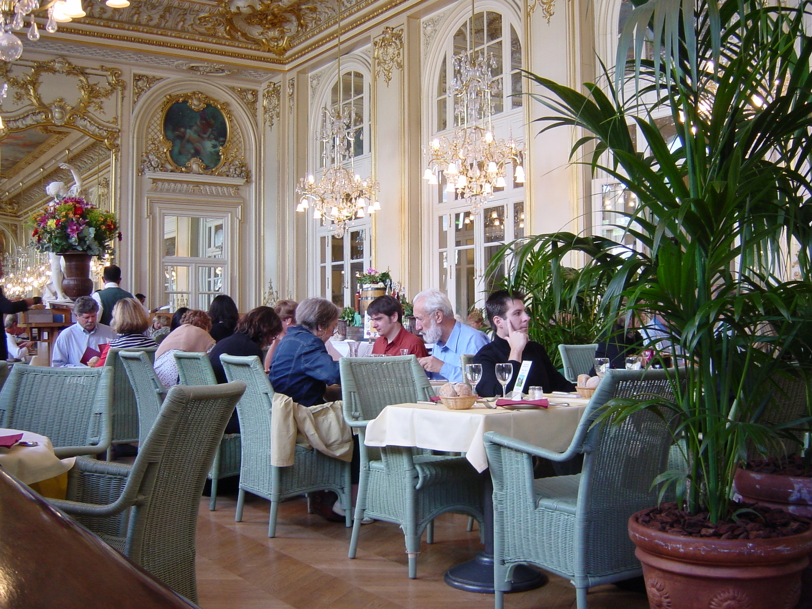 Restaurant du Musée d'Orsay, formerly the restaurant of the Hôtel d'Orsay, opened in 1900, is on the first floor of the museum.[1] . Reference ↑ Restaurant. Musée d'Orsay (2006). Retrieved on 30 December 2015.